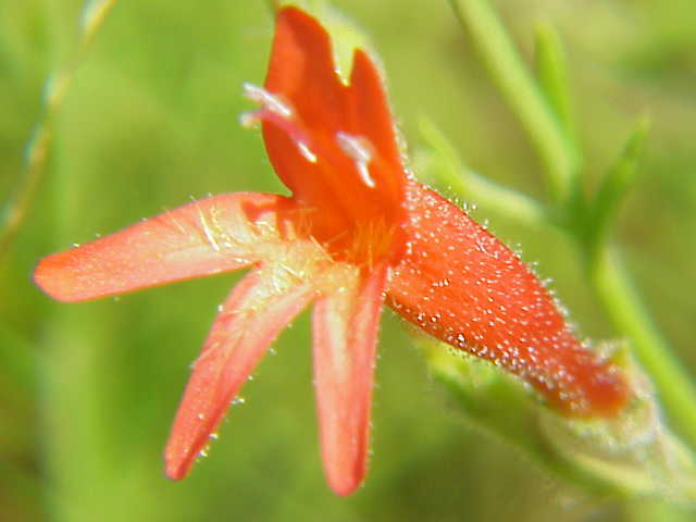 Species: Penstemon pinifolius Family: Plantaginaceae Image No. 1